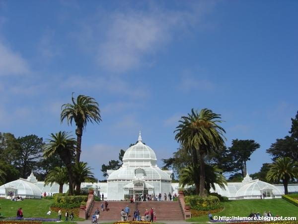 A front view of Conservatory of Flowers in the San Francisco Golden Gate Park, Florida.